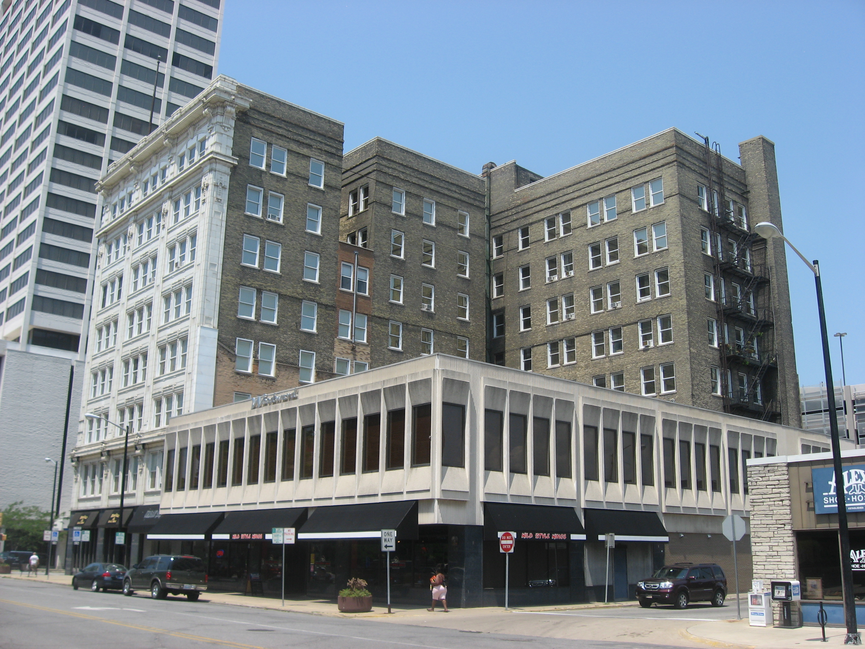 Rear and southern side of the J.M.S. Building (the taller building in the background), located at 108 N. Main Street in South Bend, Indiana, United States. Built in 1910, it is listed on the National Register of Historic Places.